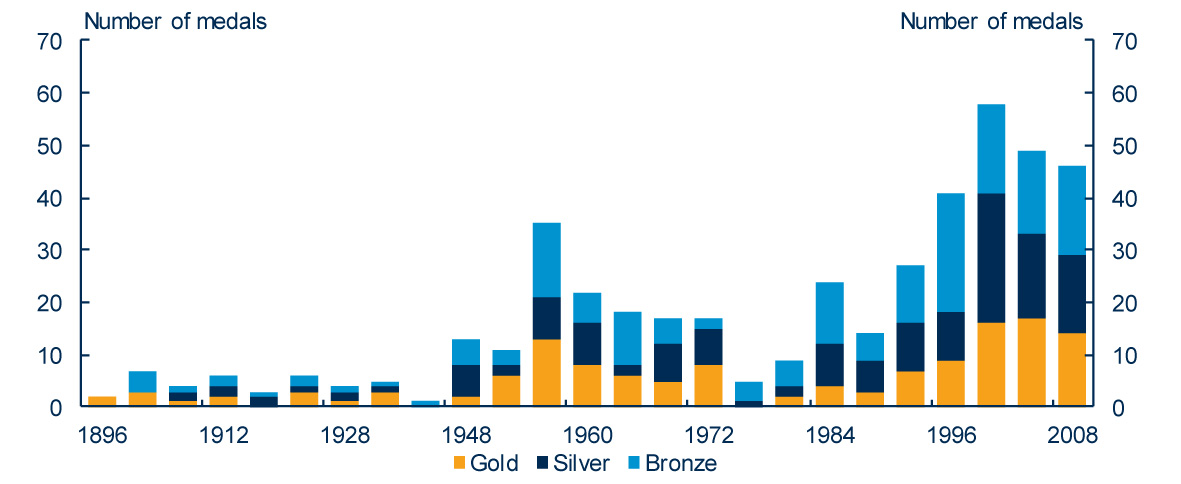 Australian Olympic medals totals. Image released in as part of budget.